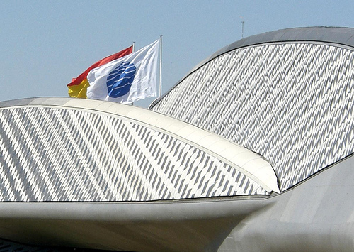 Flags of the BIE and Spain behind the Bridge Pavilion in Expo 2008 Zaragoza.